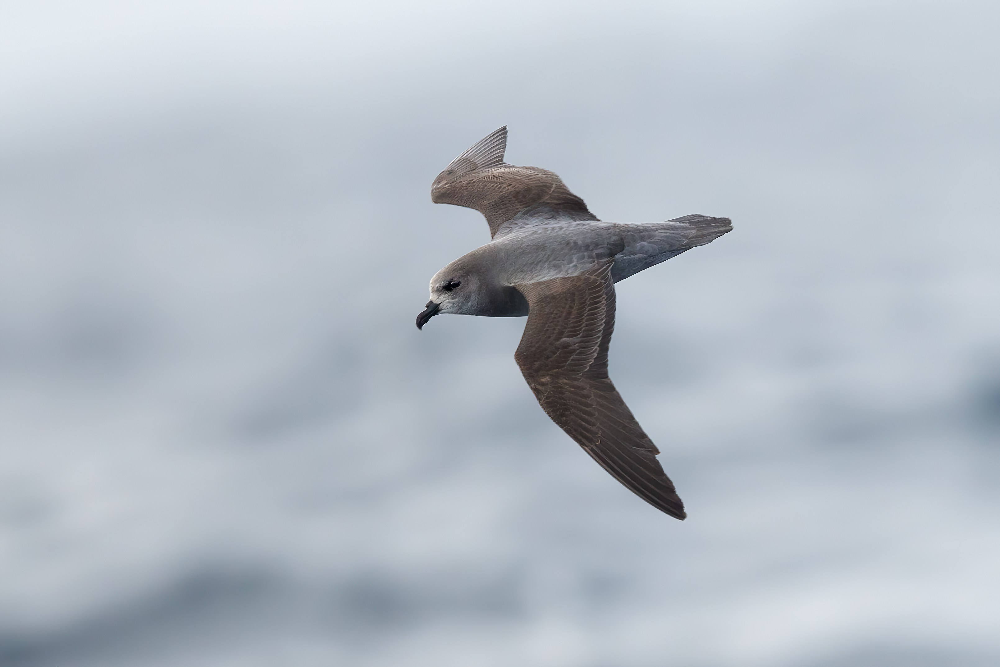 Soft-plumaged Petrel (Pterodroma mollis) dark morph, East of the Tasman Peninsula, Tasmania, Australia